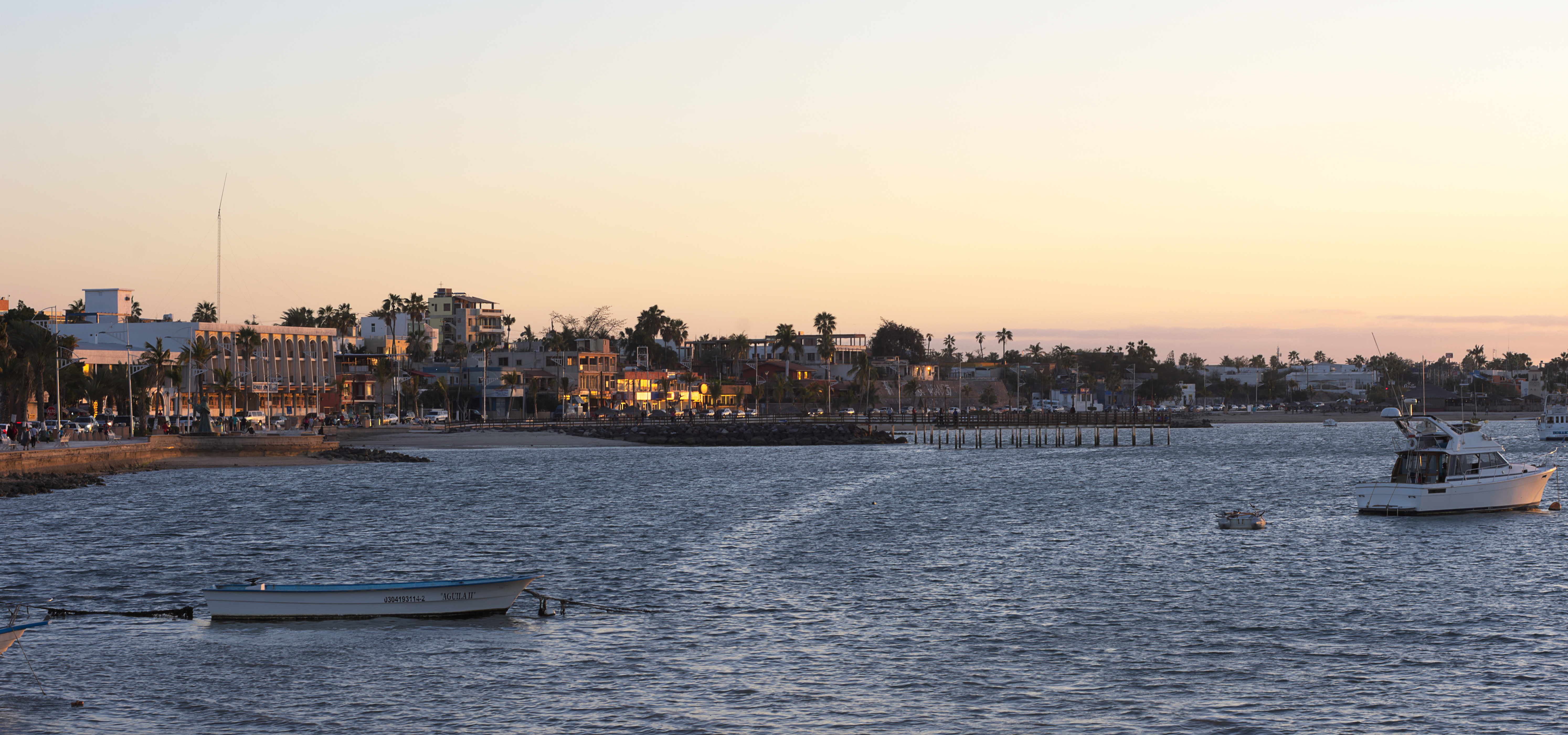 La Paz promenade, Baja California Sur, Mexico